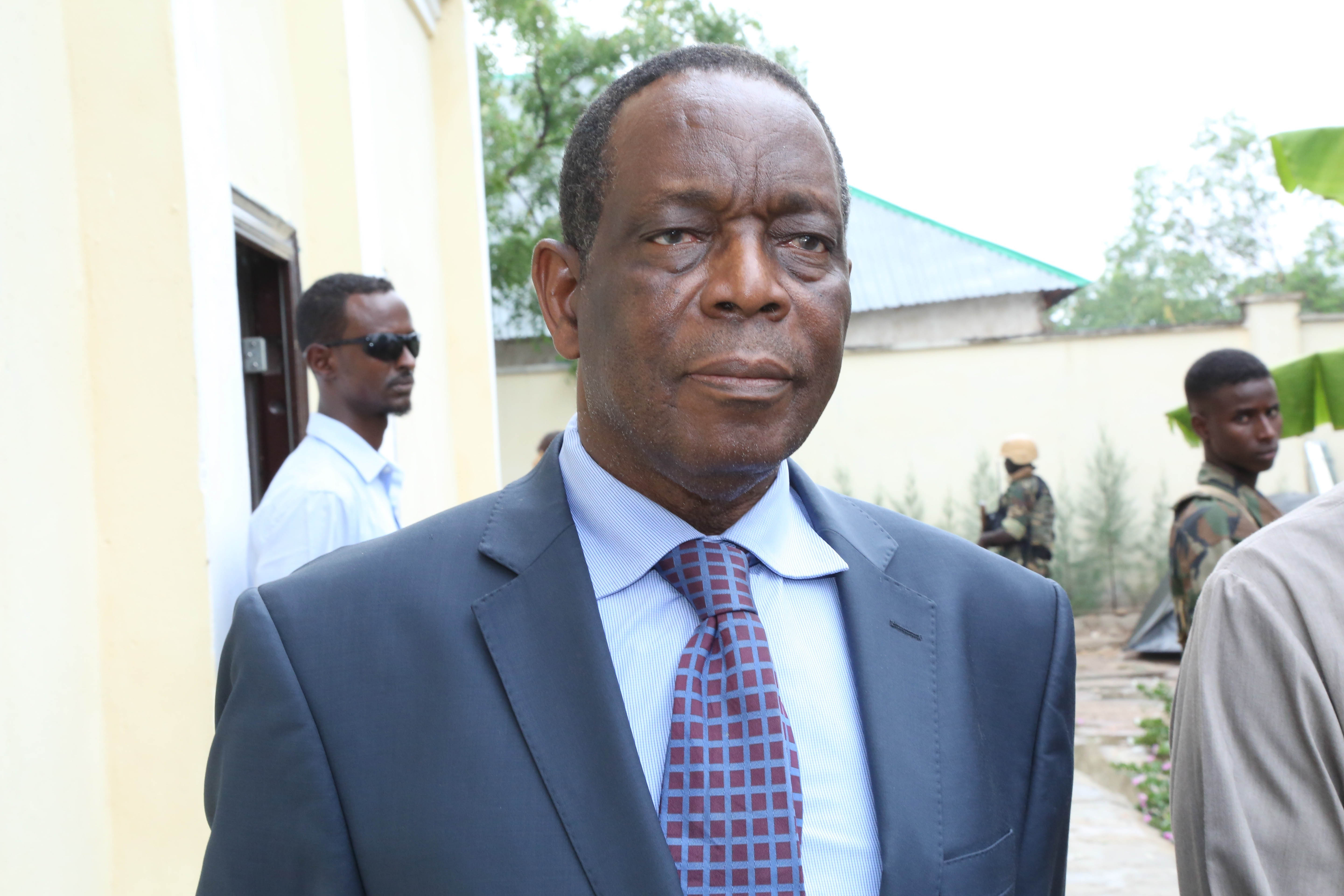 The Special Representative of the Chairperson of the African Union Commission (SRCC) for Somalia, Ambassador Francisco Caetano Madeira, in Jowhar, Somalia on November 20, 2016. AMISOM Photo